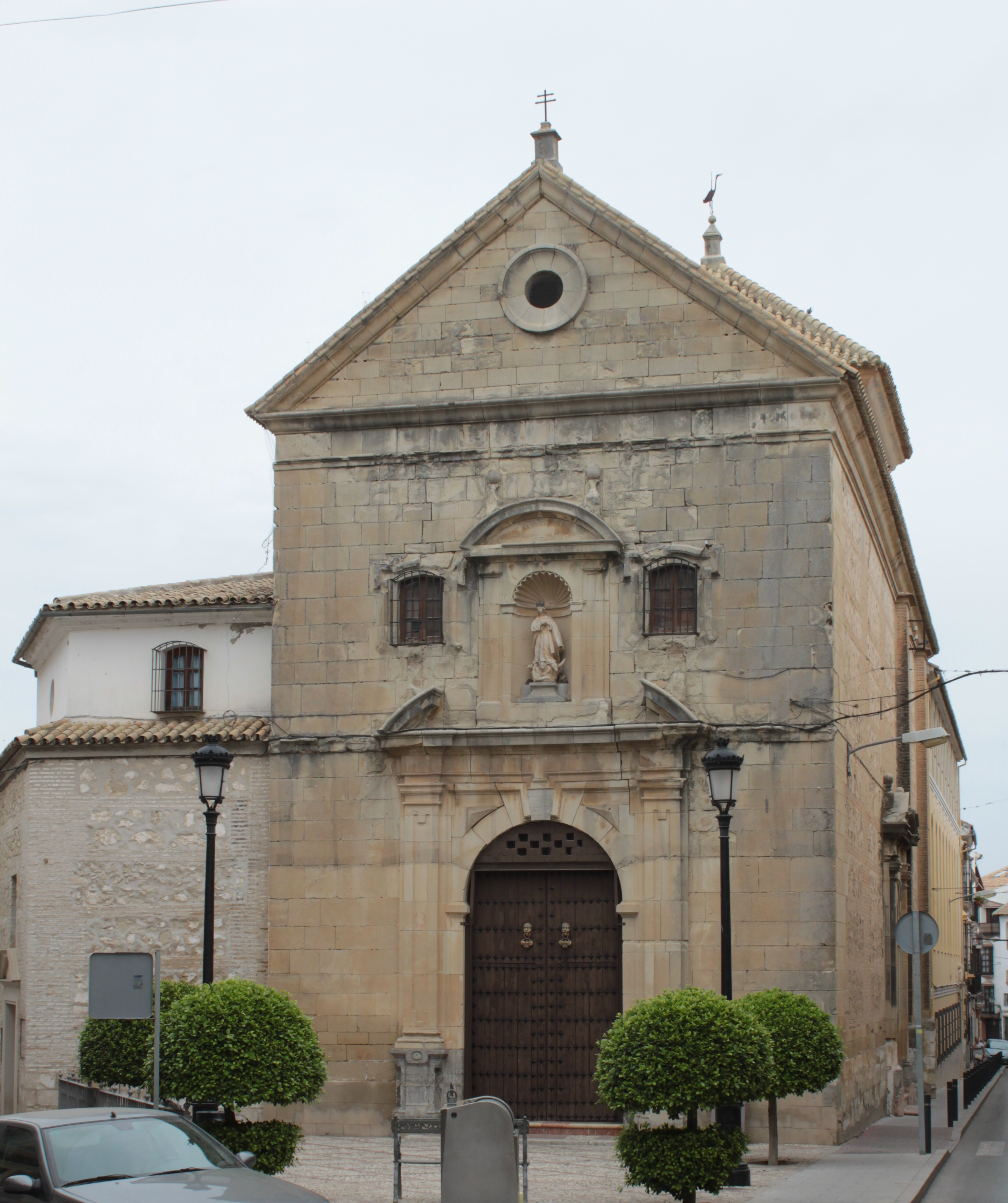 Church of the Immacolate Conception. Lucena (Spain).